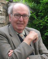 John Joubert (1927– ), a Birmingham-based British composer of classical music.